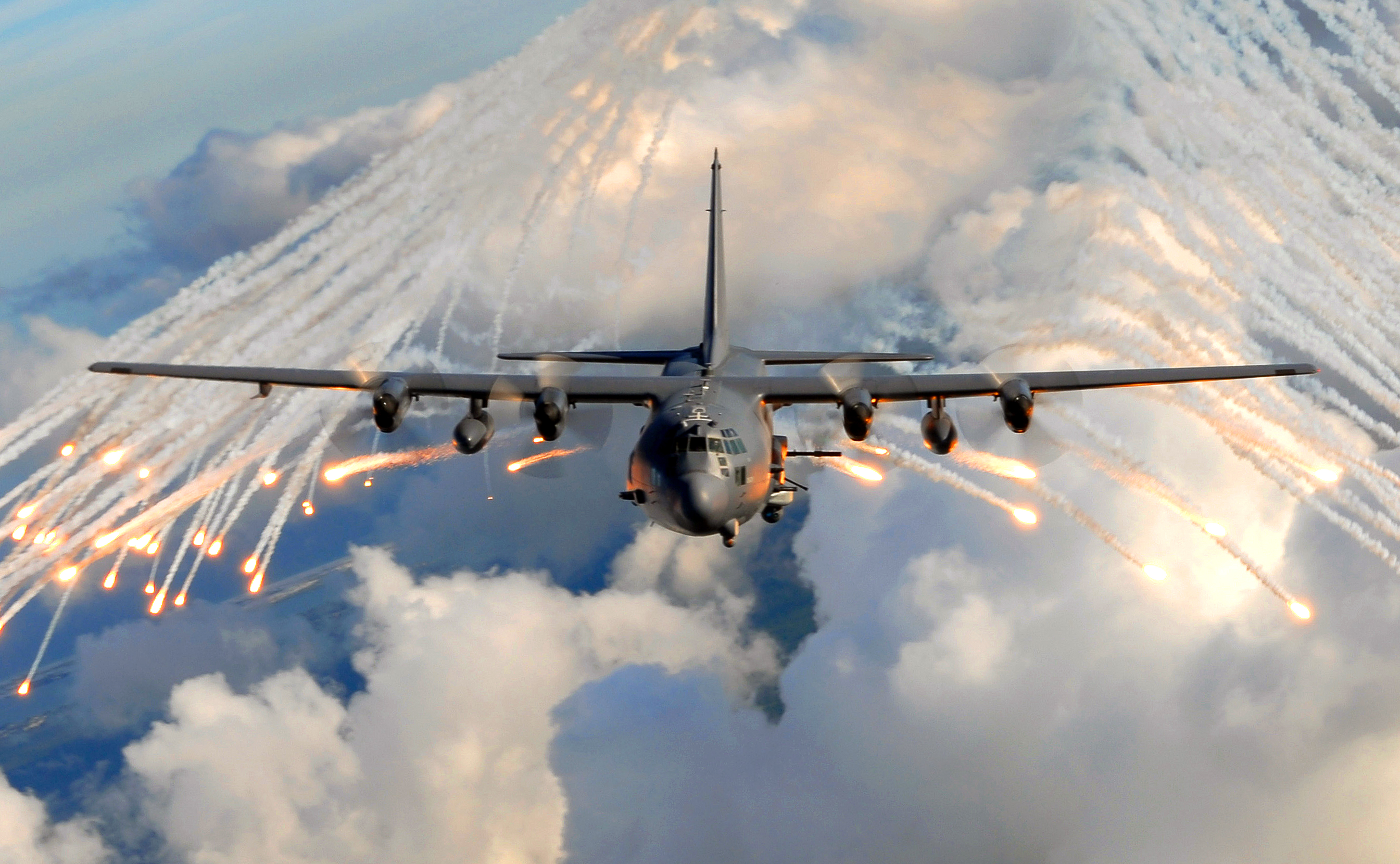 An AC-130U Spooky Gunship from the 4th Special Operations Squadron jettisons flares over an area near Hurlburt Field, Florida, on August 20, 2008. The flares are used as a countermeasure to heat-seeking missiles that can track aircraft during real-world missions.